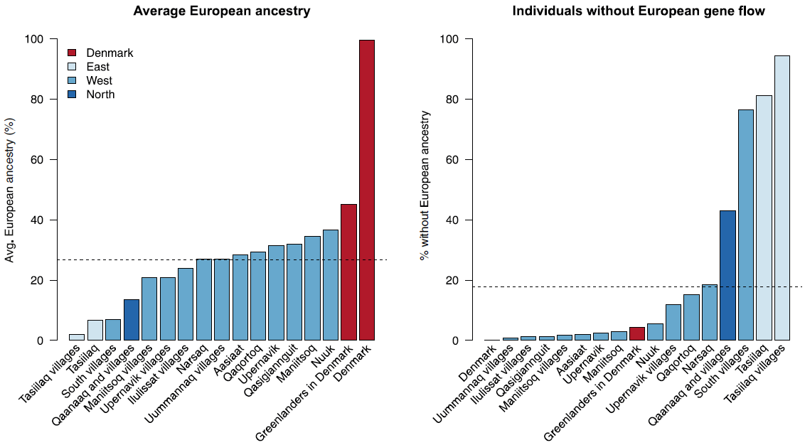 Extent of European Ancestry at Different Locations in Greenland. The results shown are summaries of the admixture proportions estimated for all individuals included in this study (the full data set) under the assumption of two ancestral populations (K = 2). The bars in the left plot show the average European ancestry proportion at each sampling location, and the dashed line shows the average for the entire data set. The bars in the right plot show the fraction of individuals without European admixture for each sampling location, and the dashed line shows the fraction for the entire data set. The color scheme is the same as in File:Sampling Locations in Greenland.png.